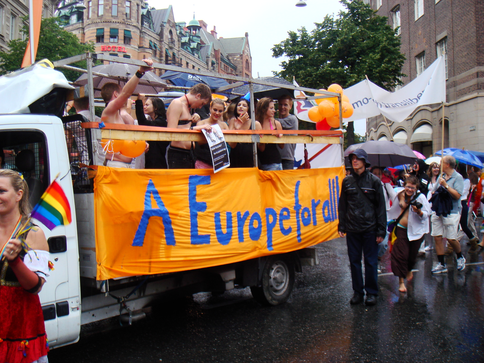 Stockholm Europride 2008. Picture by Stefano Bolognini.